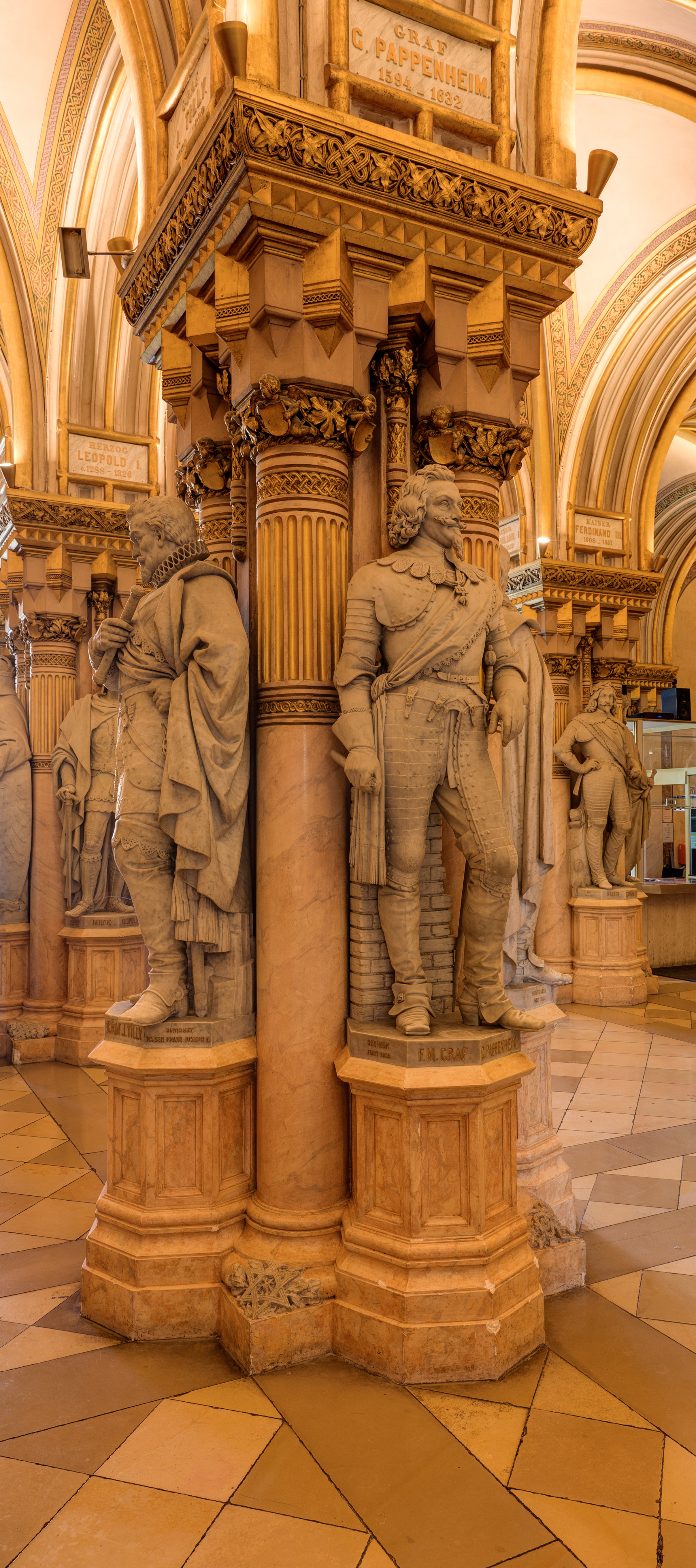 The Museum of Military History - Military History Institute in Vienna (German: Heeresgeschichtliche Museum – Militärhistorische Institut), is the leading museum of the Austrian Armed Forces, which documents the history of Austrian military affairs through a wide range of exhibits.